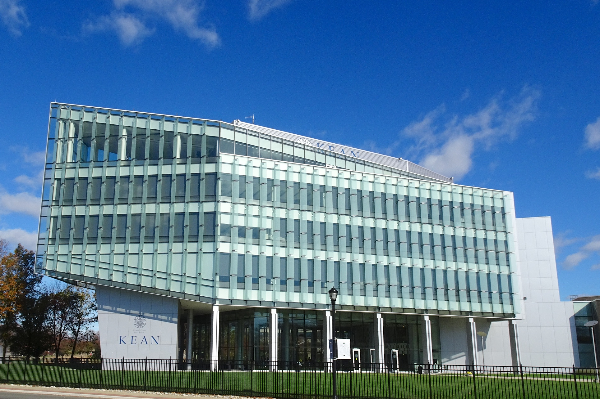 New Jersey Center for Science, Technology and Mathematics Education at Kean University.